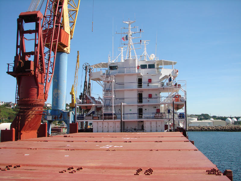 The all-forward superstructure of the heavy-lift ship La Paimpolaise.